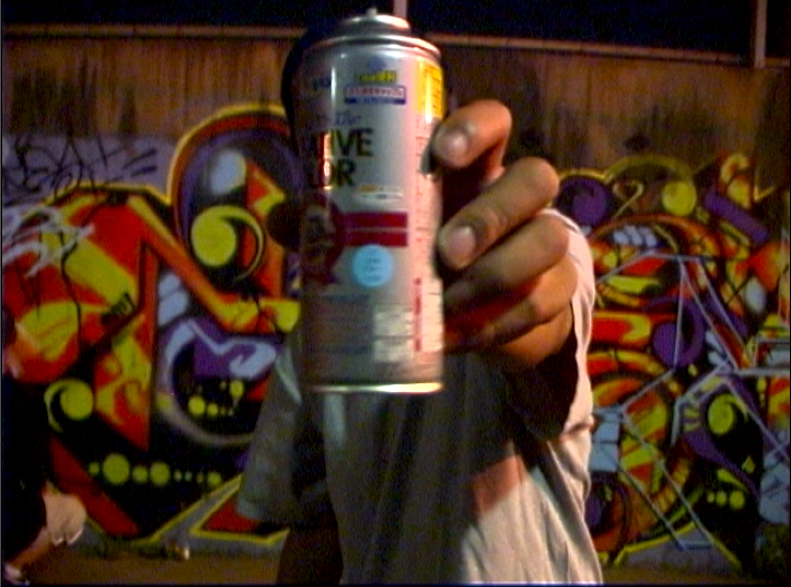 Sean Wilson , Tokyo 2005.